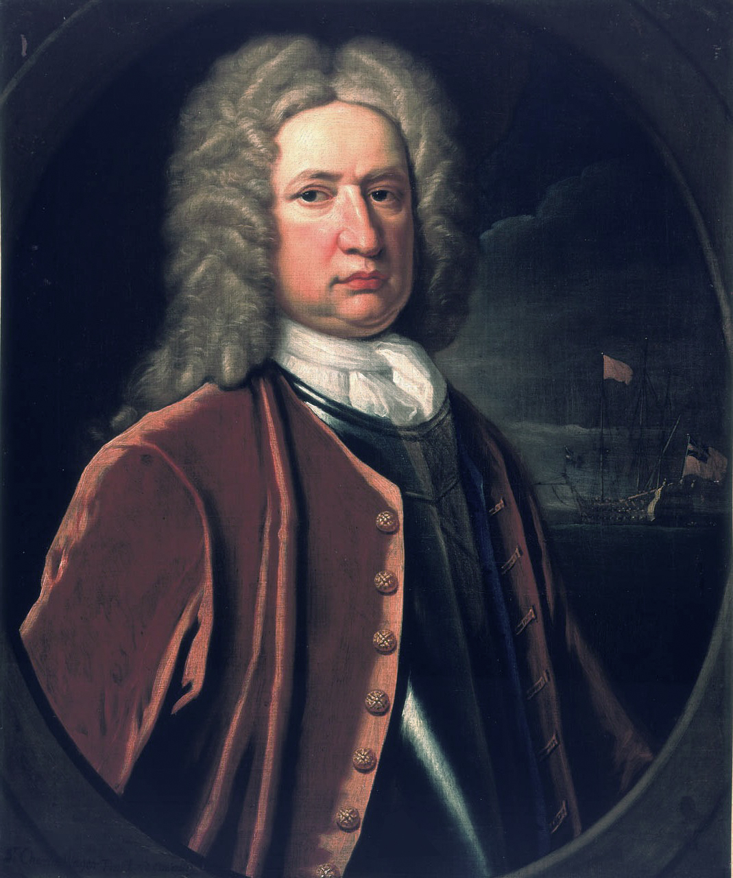 Sir Charles Wager (1666-1743)